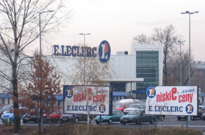 E.Leclerc market in Wrocław, Poland